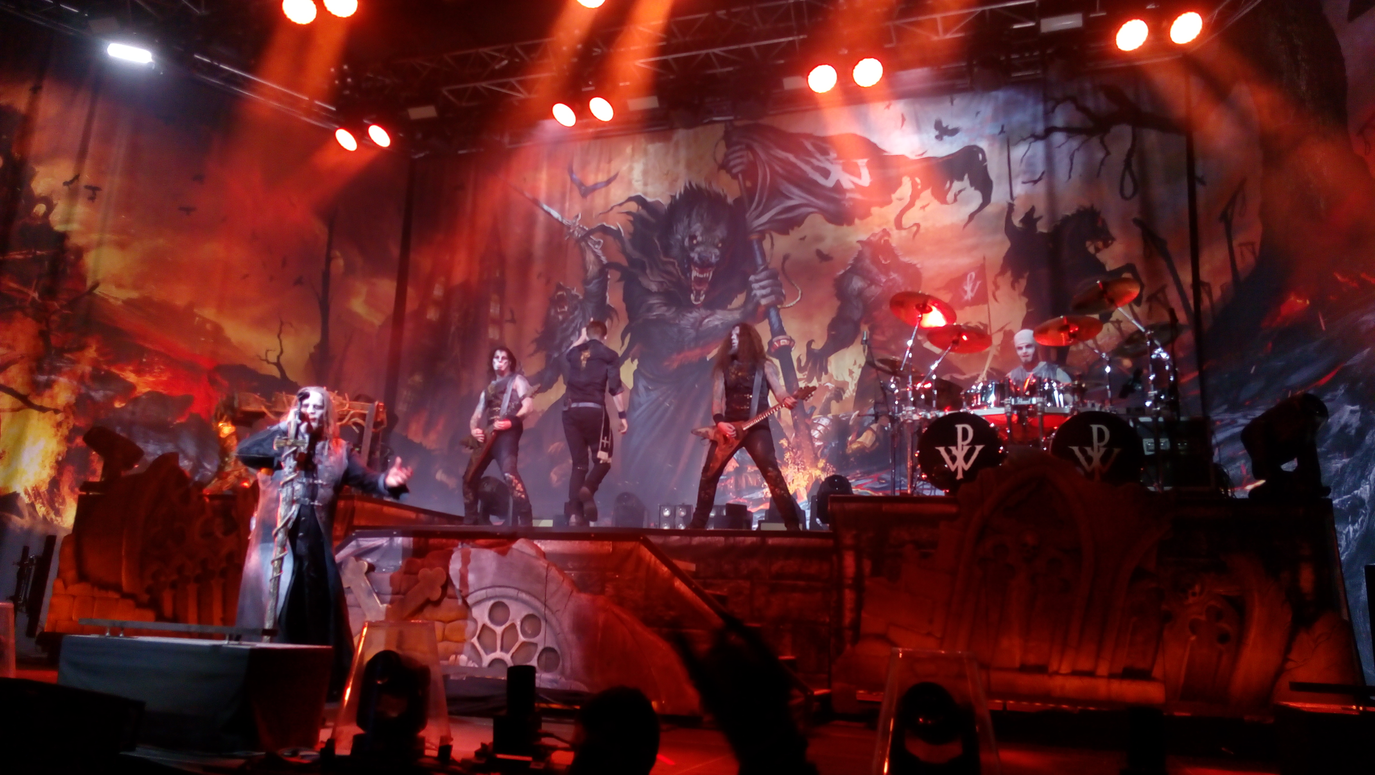 German band Powerwolf during the sold out show at Forum Karlín, Prague, 3. 11. 2018